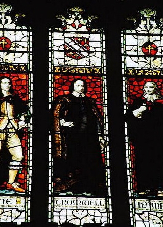 Part of a stained glass window in the chapel of Mansfield College, Oxford. Arms similar to arms of Howard.